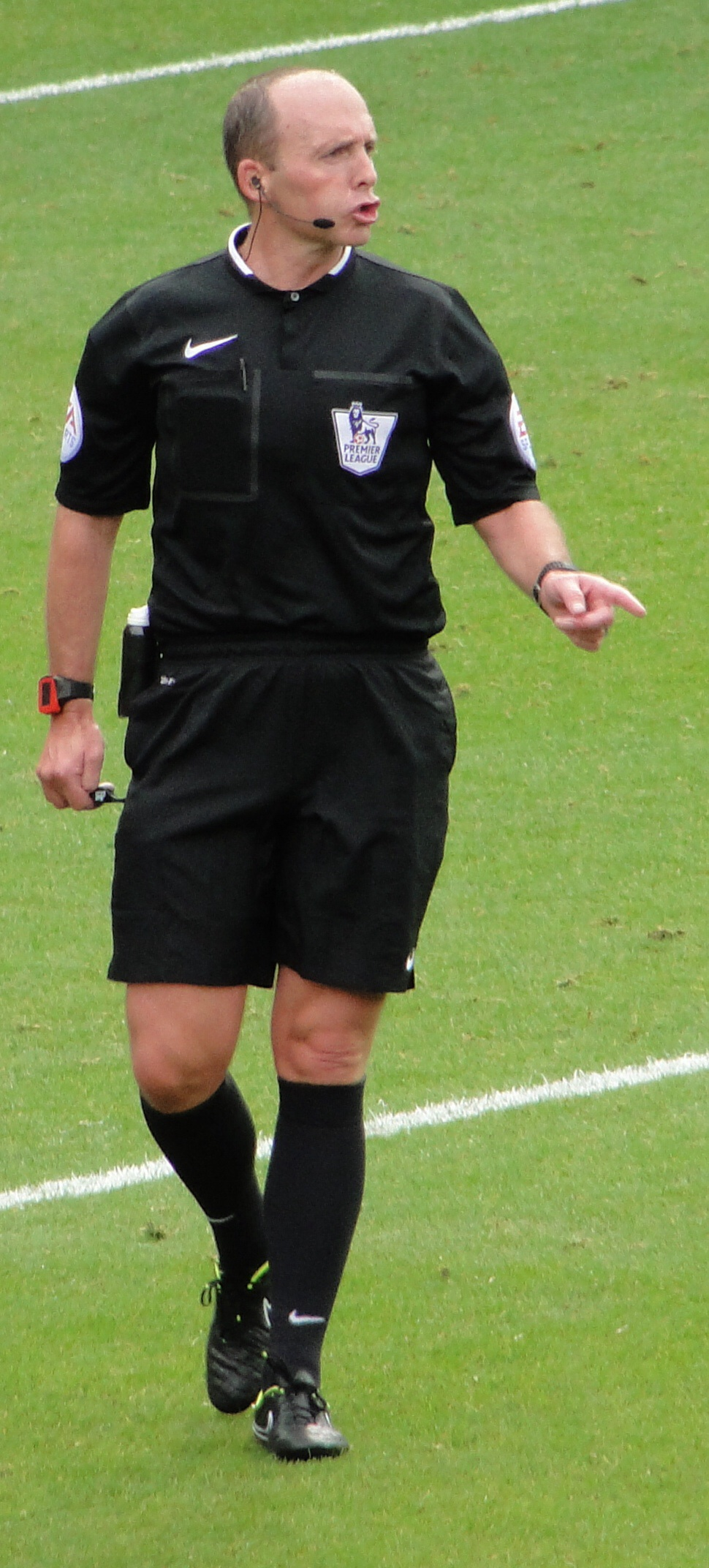 Referee Mike Dean at the Boleyn Ground officiating in a game between West Ham United and Southampton, August 2014.